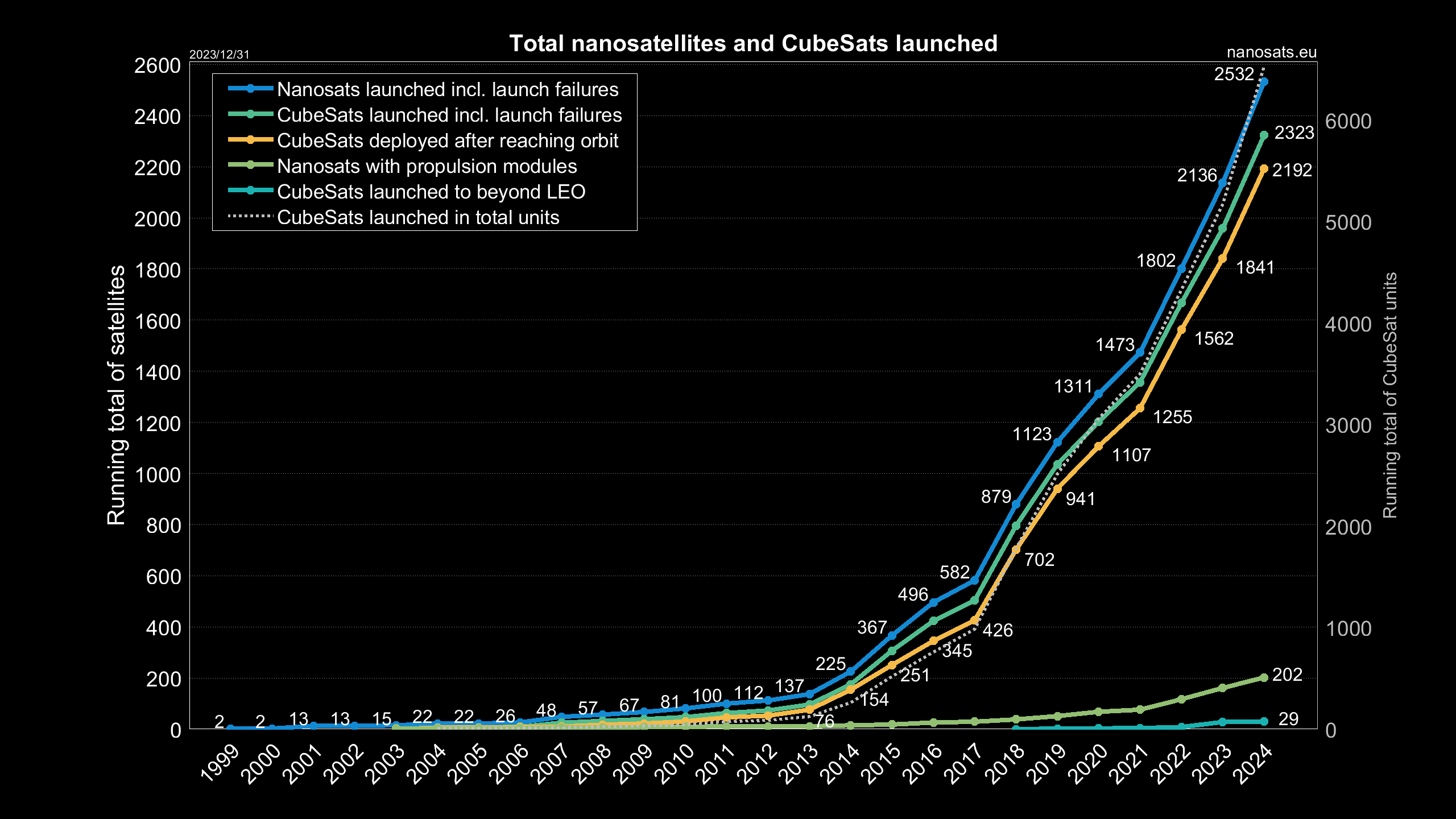 Running total or cumulative sum of launched CubeSats including launch and deployment failures.